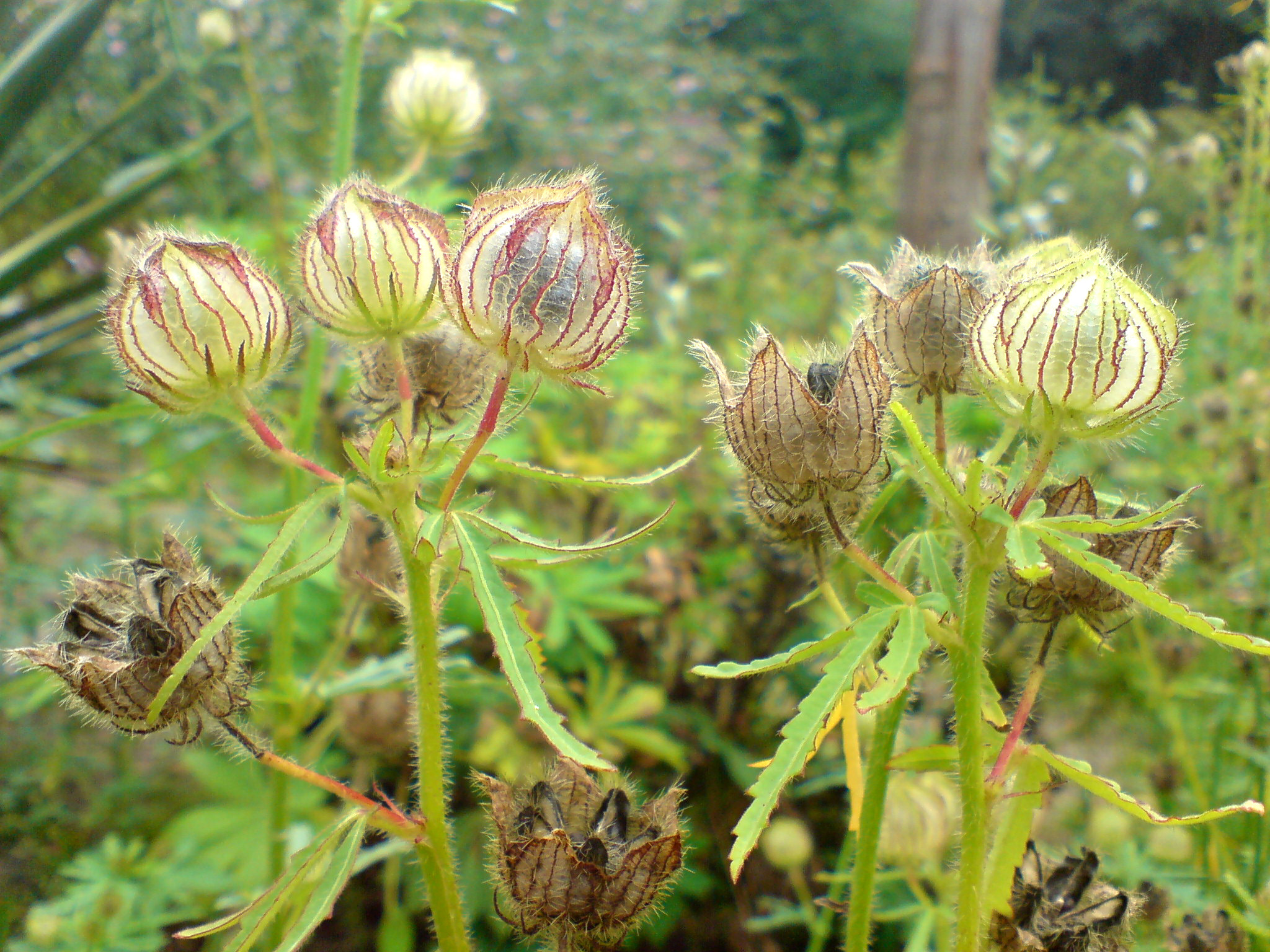 Hibiscus cannabinus (Deccan hemp, Java jute, Kenaf) - Botanical Garden Bremen